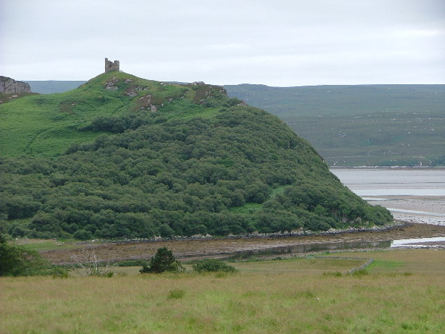 Caisteal Bharraich, Tongue, Scotland. Caisteal Bharriach on the headland serene above the Kyle of Tongue.